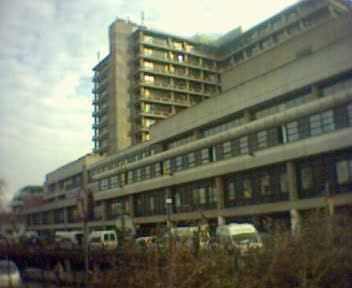 Royal Free Hospital in London